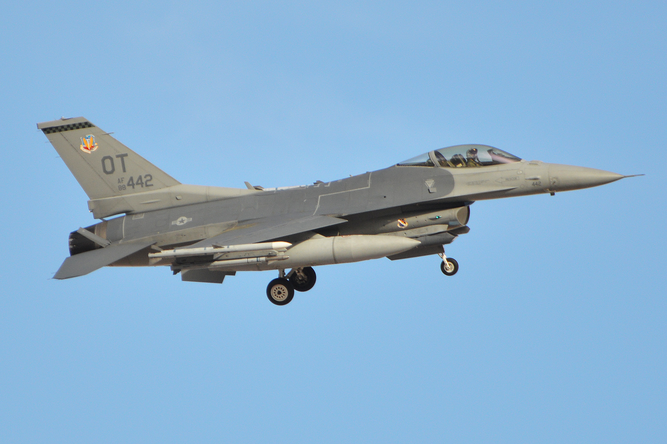 c/n 1C-44. Full US military serial 88-0442. Operated by the 422nd Test & Evaluation Sqn, part of the 53rd Test & Evaluation Group. Nellis AFB, NV, USA. 1st March 2016.